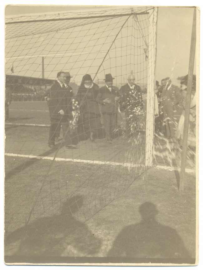 Official opening of Stadio via Pisacane (today Stadio Giovanni Mari) in Legnano, Italy